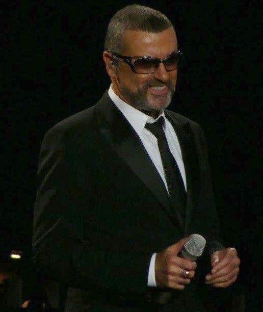 George Michael during Symphonica: The Orchestral Tour.